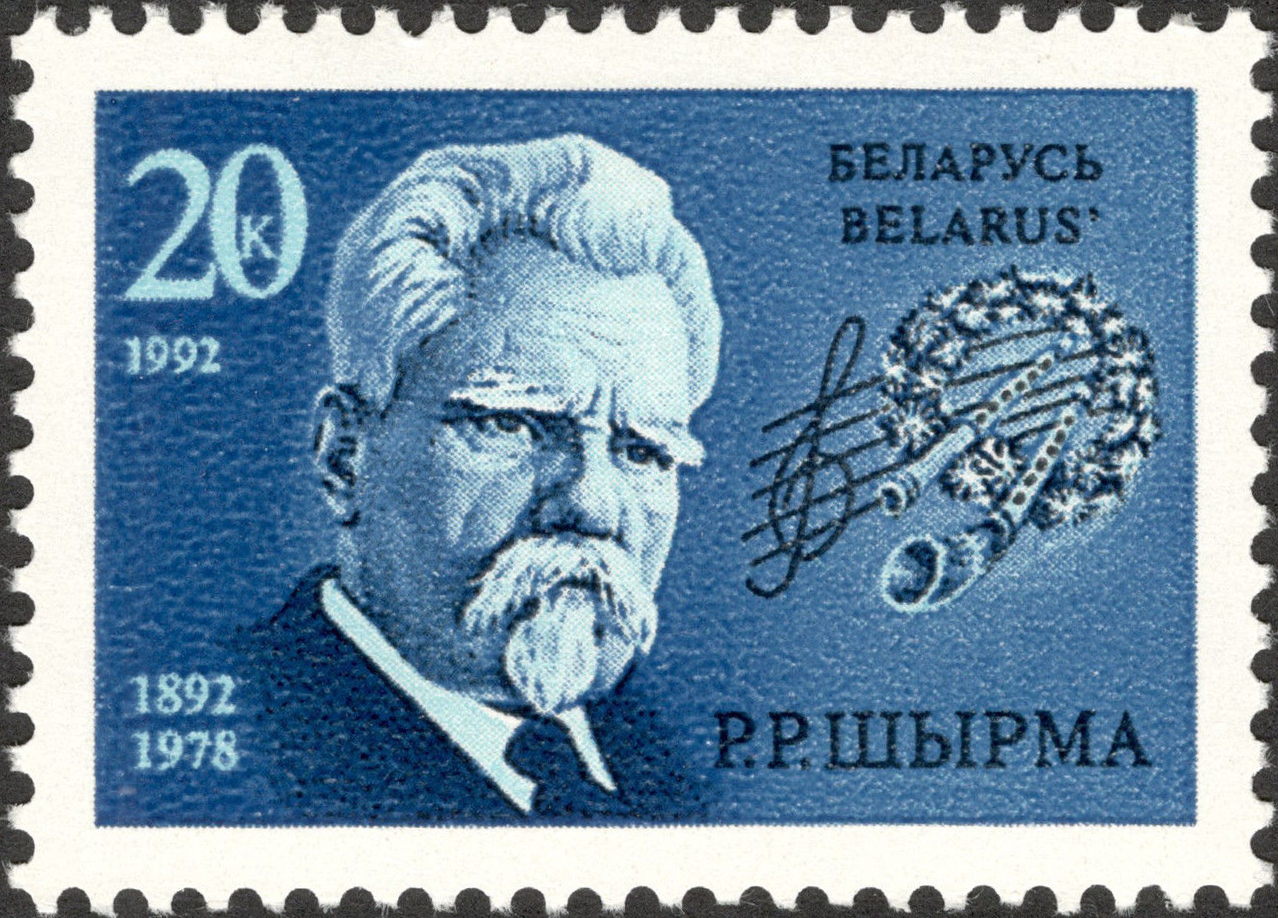 Stamp of Belarus